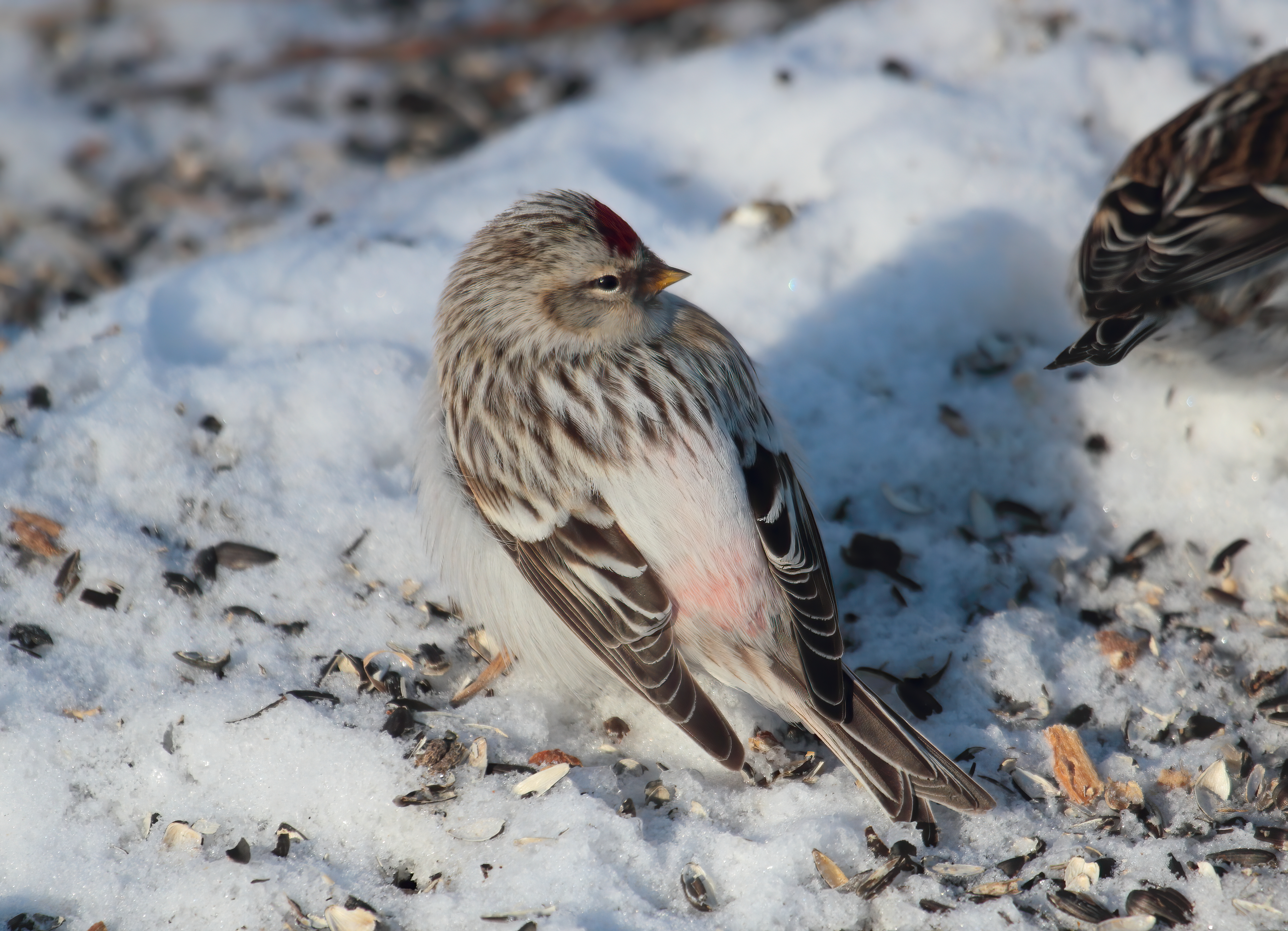 Arctic Redpoll, Cap Tourmente National Wildlife Area, Quebec, Canada.